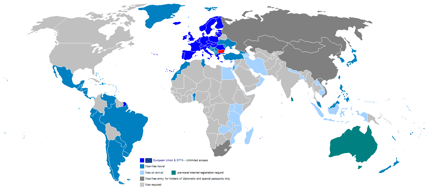 visa free travel for citizen of Bulgaria